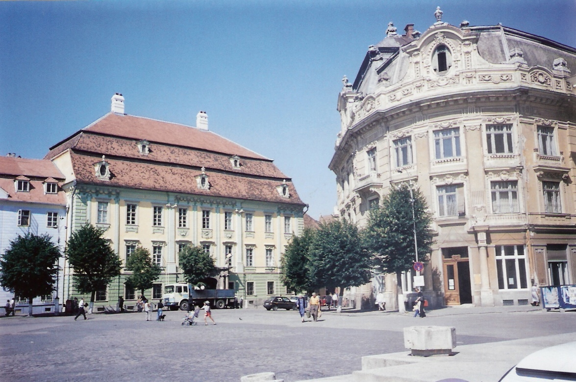 brukenthal national museum, sibiu